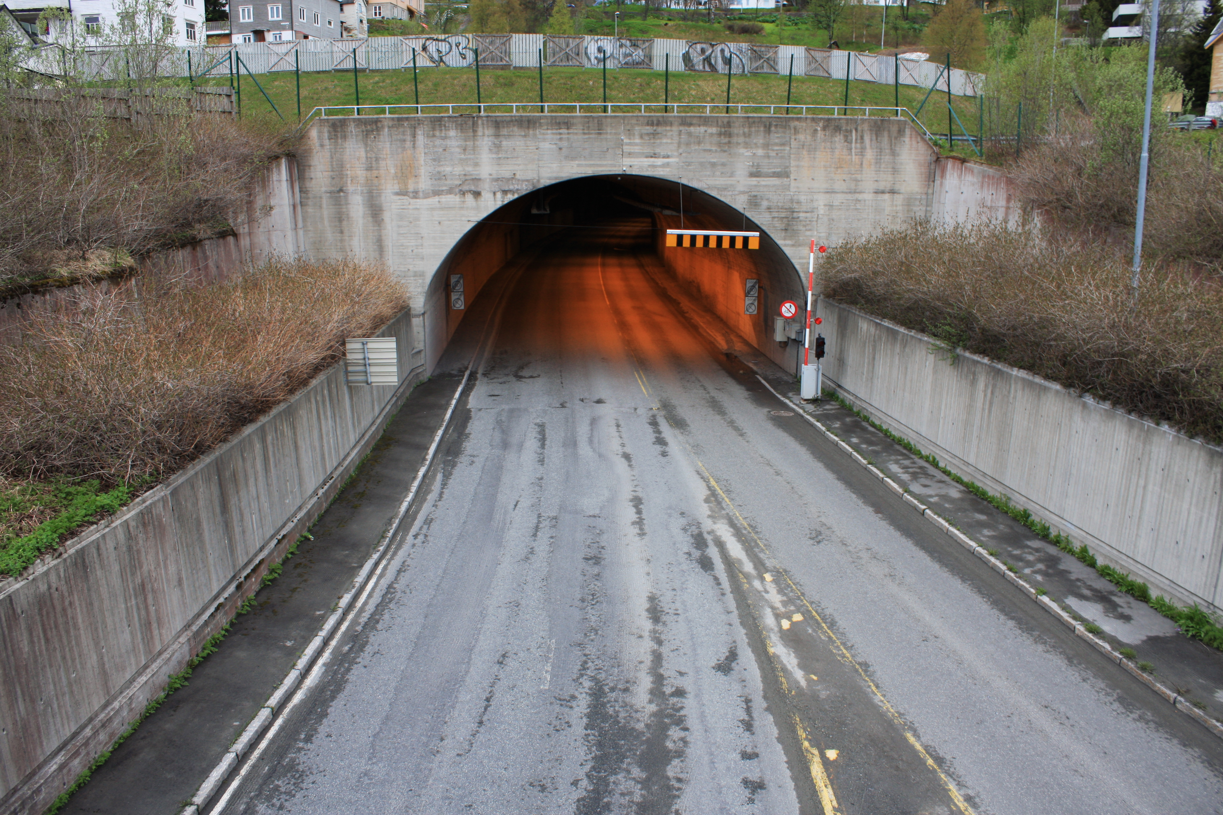 The tunnel entrance in Hansjordneset.